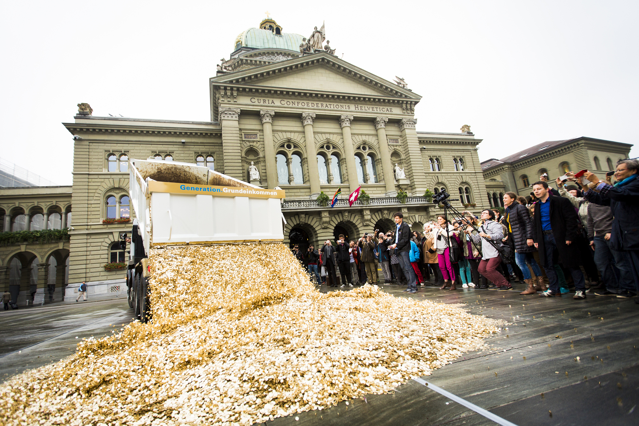 On 4 October 2013, Swiss activists from "Generation Grundeinkommen" organised a performance in Bern where eight million valid Swiss 5-cent coins (one per inhabitant) were dumped on a the Bundesplatz, as a celebration of the successful collection of more than 125,000 signatures for their federal popular initiative, which forced the government to hold a referendum on whether or not to incorporate the concept of basic income in the Swiss Federal Constitution. In 2016, the referendum resulted in 76.9% of votes against the introduction of a basic income.